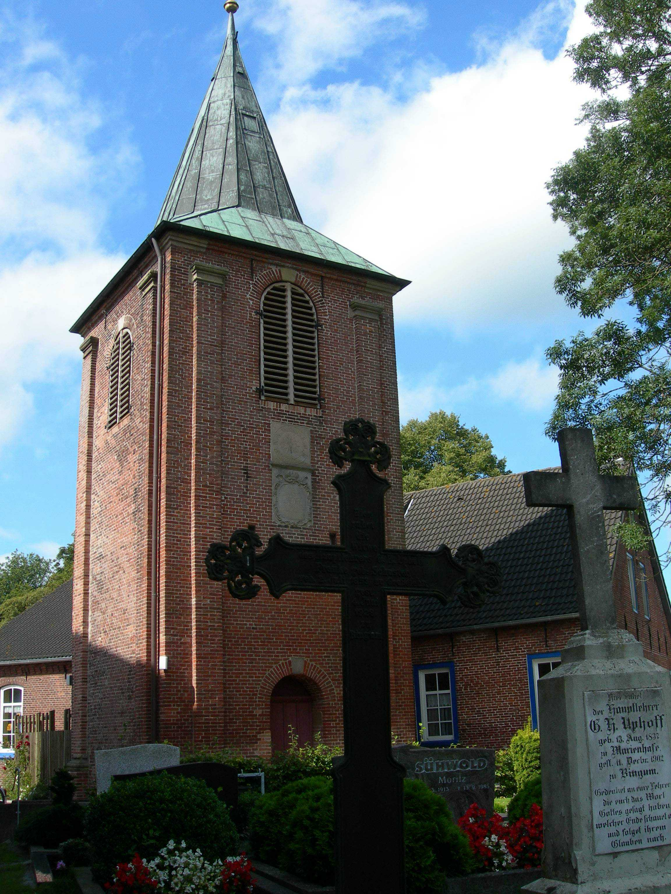 Tower of the church of Bingum